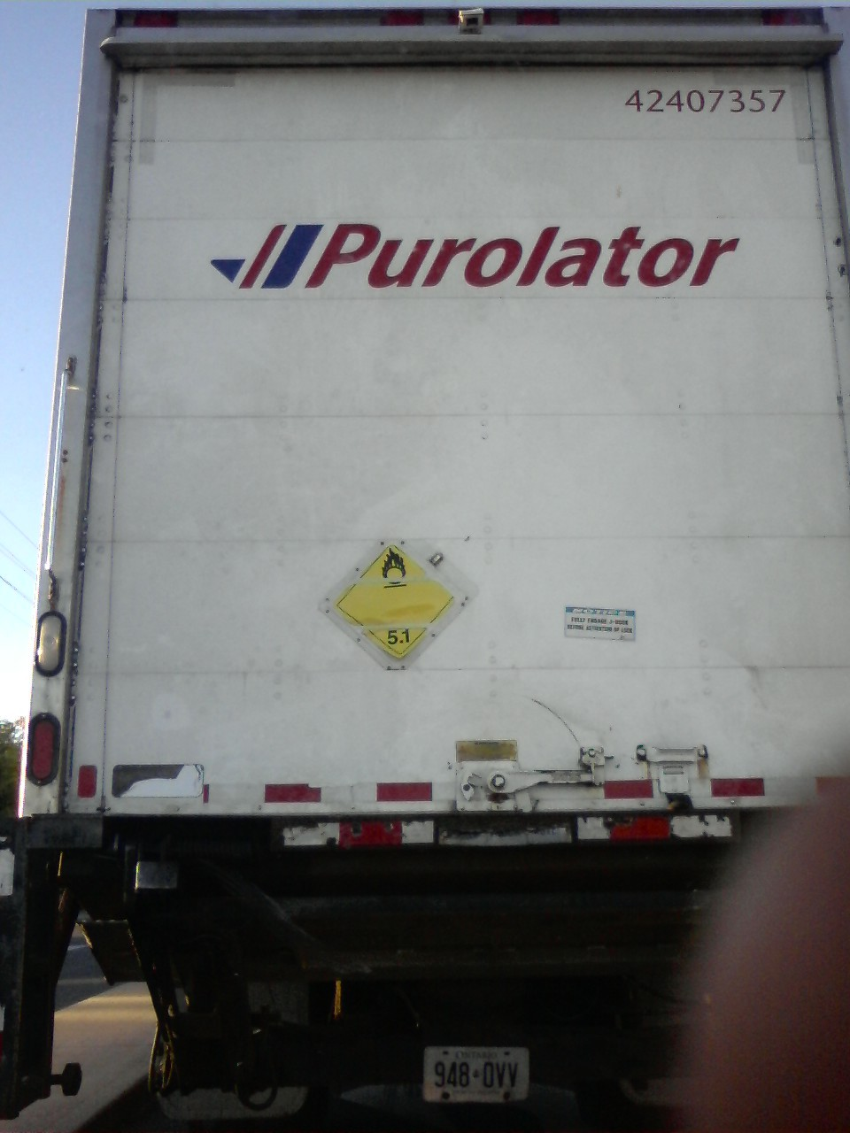 Purolator Courrier truck showing a HAZMAT Class 5.1 Oxidizing Agent. Taken in Markham, Ontario, Canada.